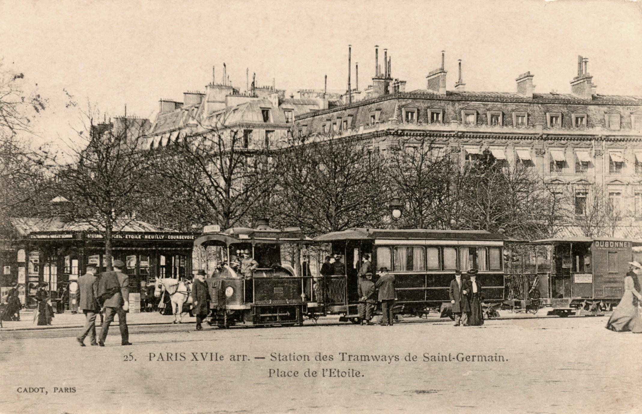 Paris–Saint-Germain tram network on place de l’étoile (Paris, France) around 1900, Francq fireless tramway - vintage postcard